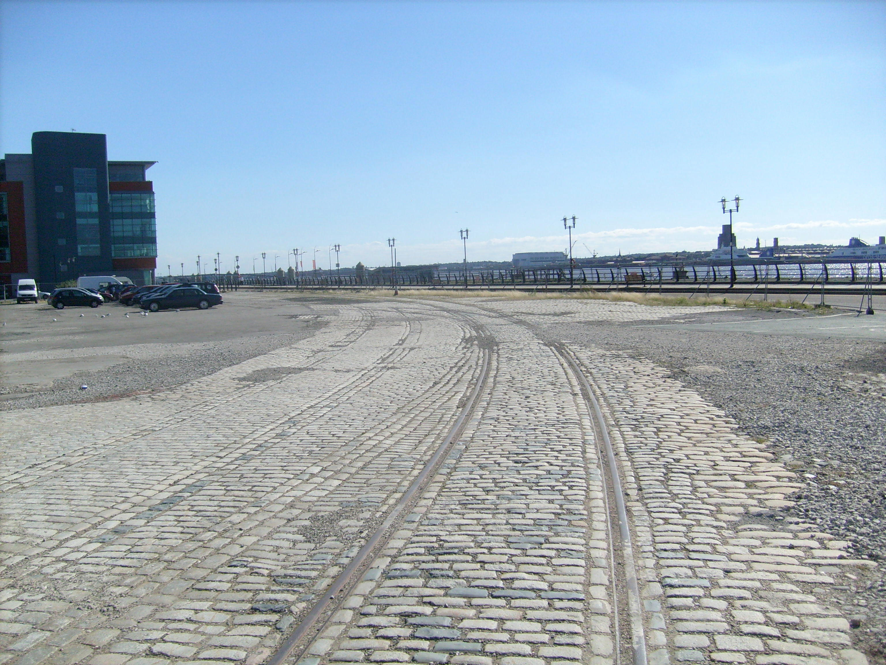 Site and lines toward Liverpool Riverside Station